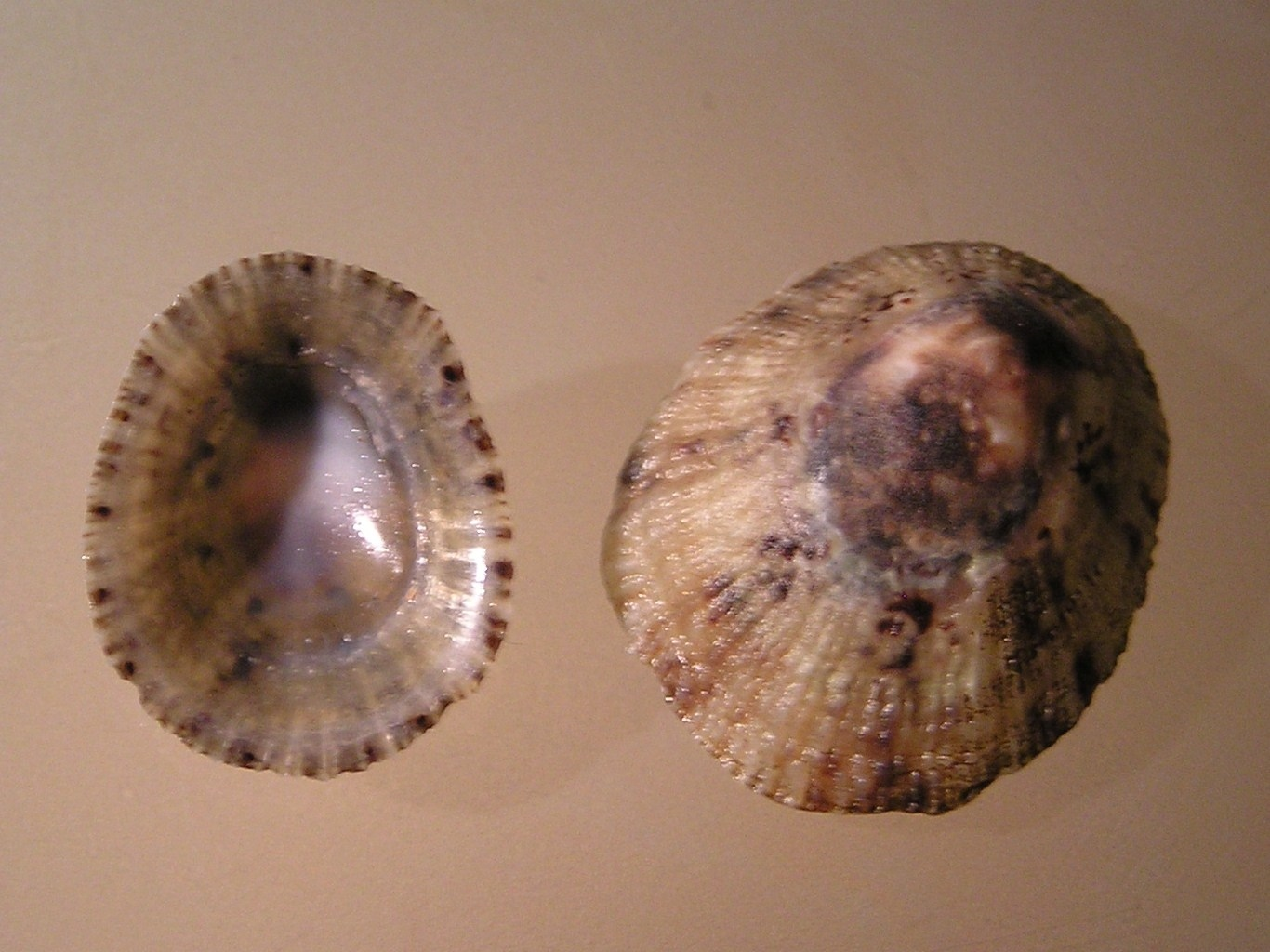 Cellana rota (Gmelin, 1791); a keyhole limpet from the family Fissurellidae; Red Sea, Egypt